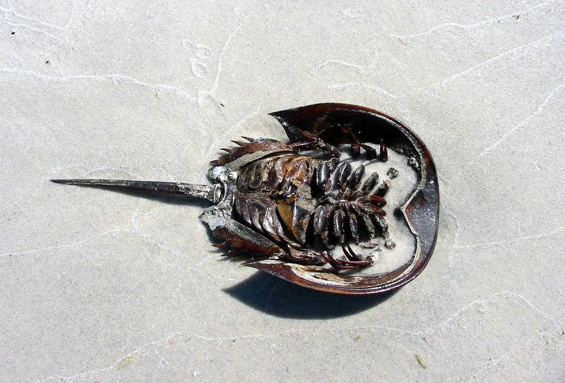 A dead horseshoe crab lying on its back, at the beach.